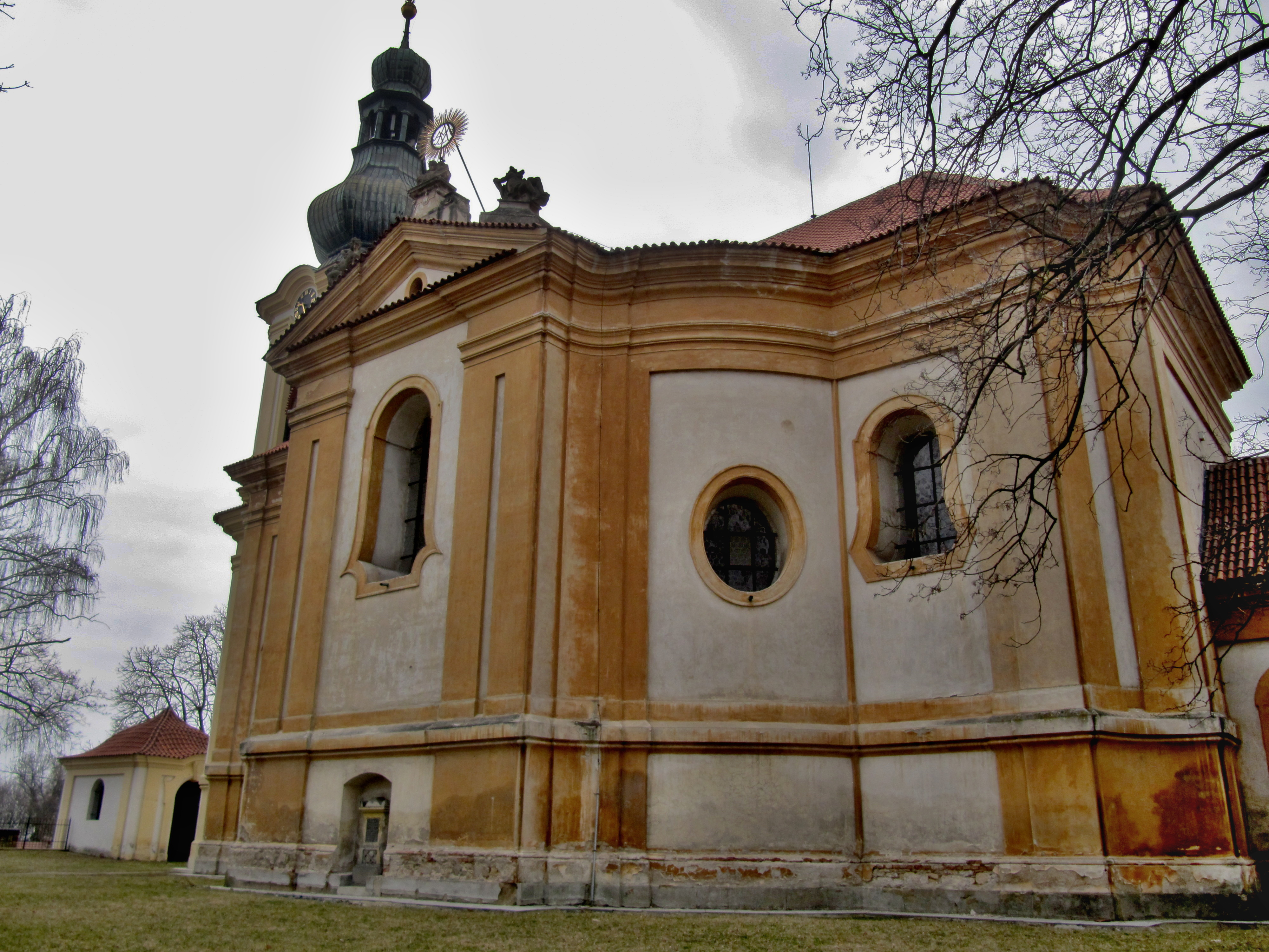 Odolena Voda, Prague-East District, Czech Republic. St. Clement's Church, built between 1733-1735, designed by Kilian Ignaz Dientzehofer.